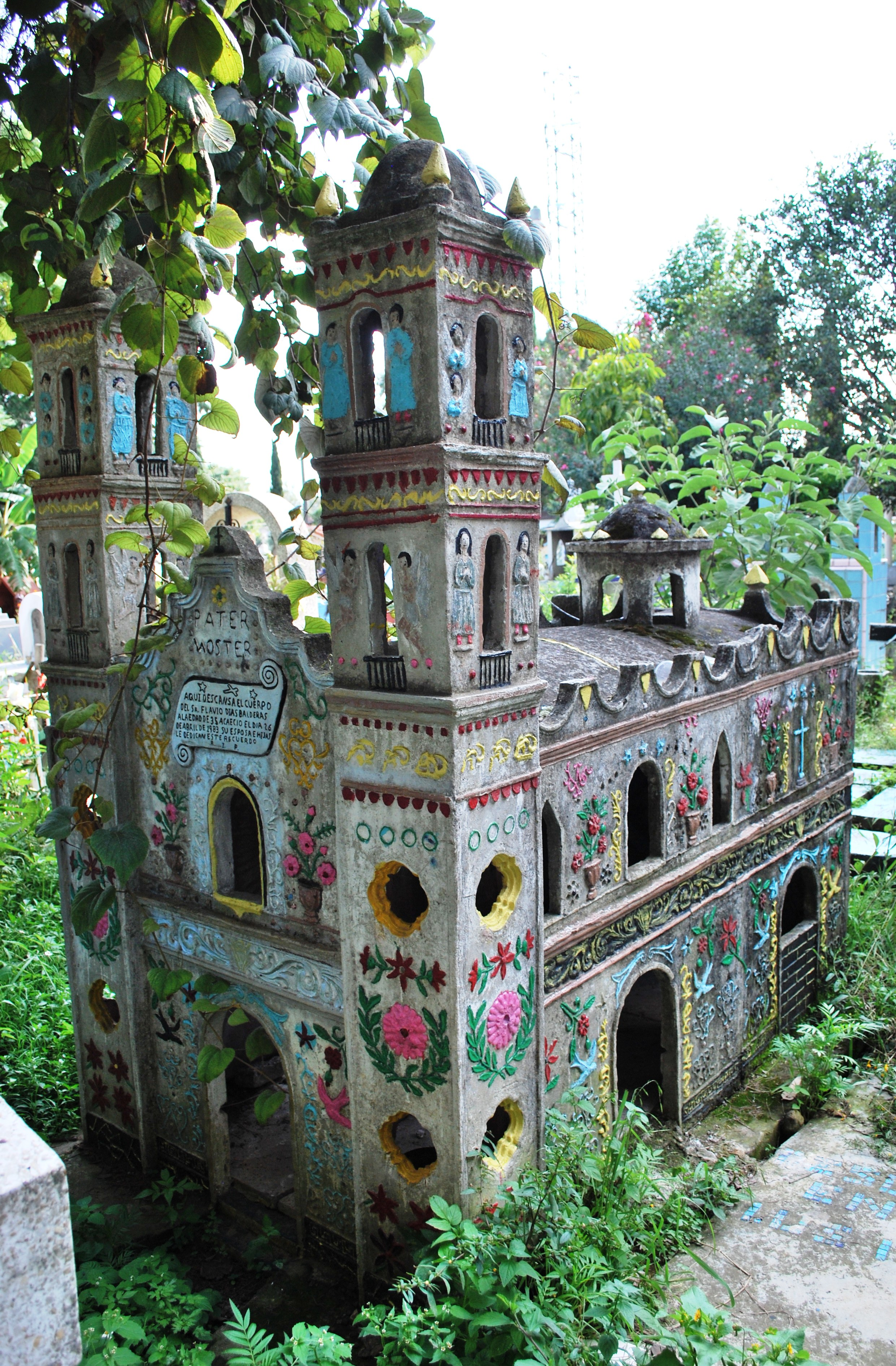 Elaborate miniature church built over a grave site at the cemetery of Ocotepec, Cuernavaca, Morelos, Mexico